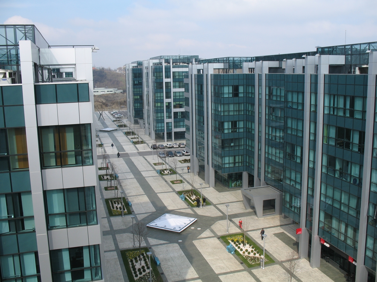 Airport City business park in Novi Beograd, Serbia.